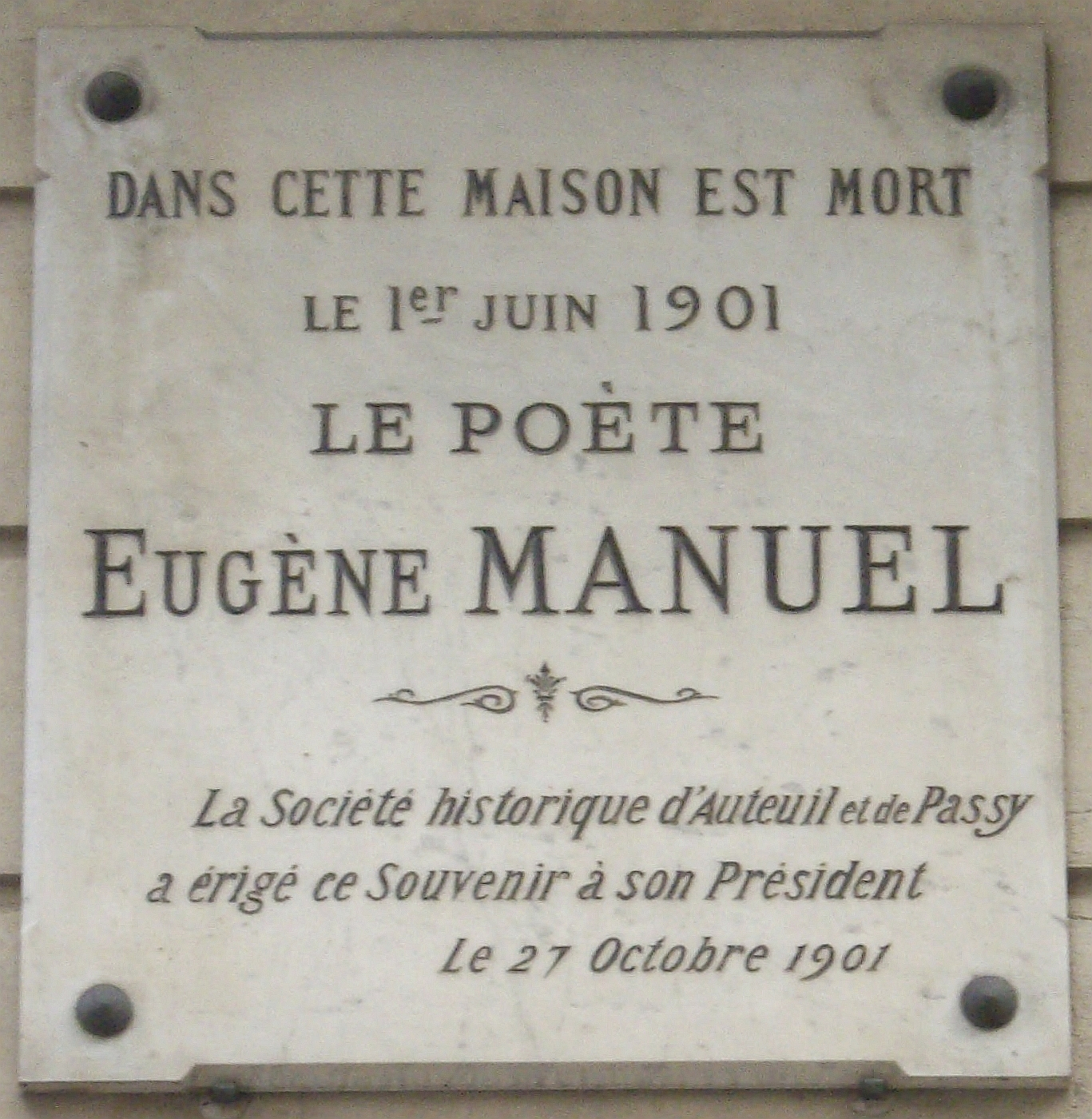 Plaque commémorative, 11 rue Mignard, Paris 16e.« Dans cette maison est mort le 1er juin 1901 le poète Eugène Manuel. La Société historique d'Auteuil et de Passy a érigé ce souvenir à son président le 27 octobre 1901. »